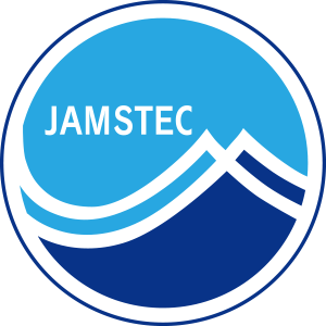 Logo of Japan Agency for Marine-Earth Science and Technology